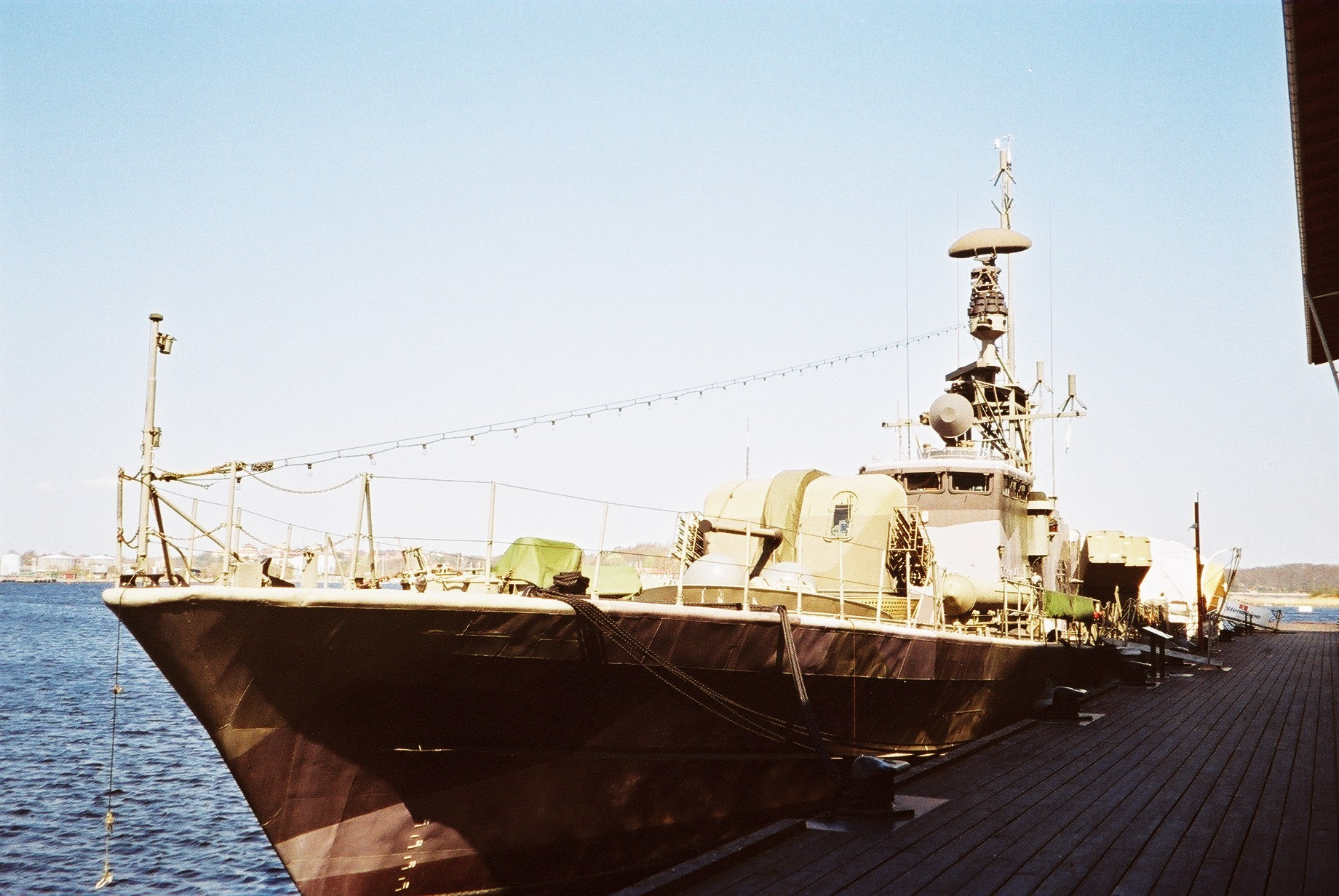 The Swedish torpedo boat (later missile boat) HMS Västervik (T136/R136).